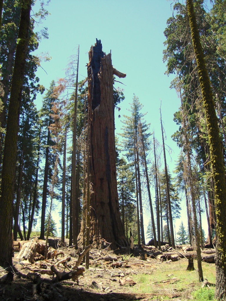 Washington Tree 2007